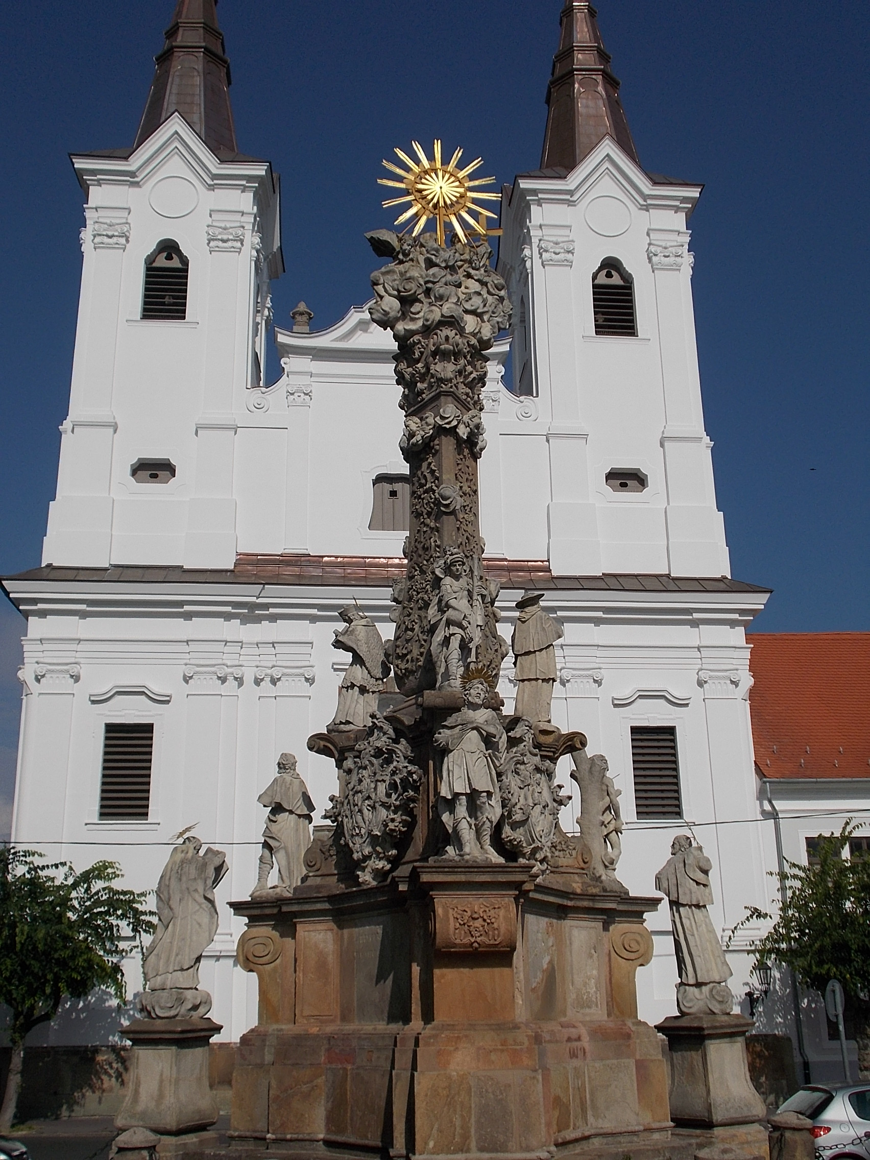 The Column of the Holy Trinity is a historic sculpture. It was built using sandstone and was commissioned by Bishop Althann between 1750 and 1755.